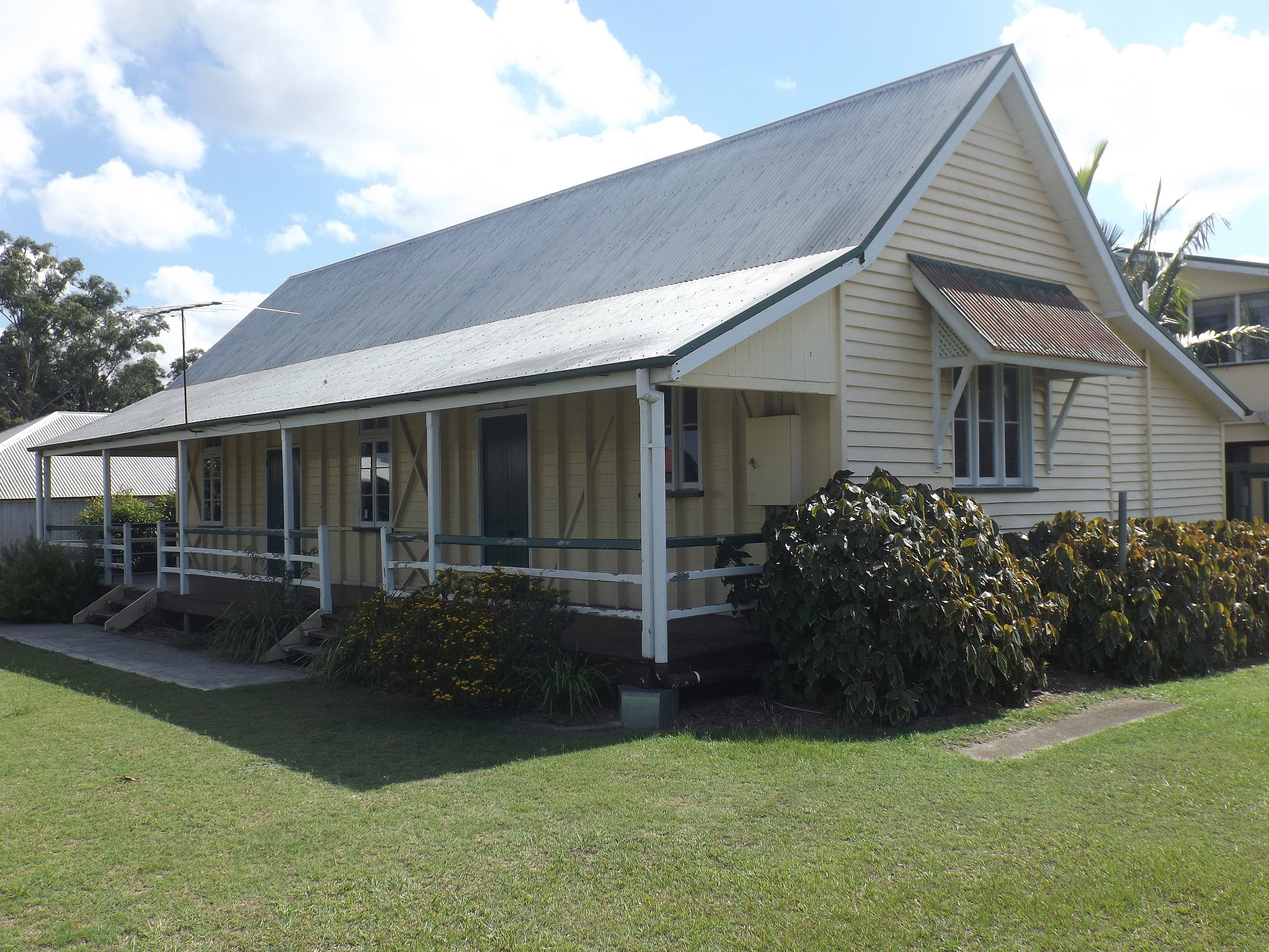 Photo of Waterford State School at Waterford, City of Logan, Queensland, Australia.